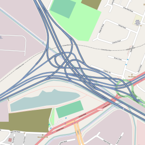 Road Interchange near Birmingham nicknamed spaghetti junction